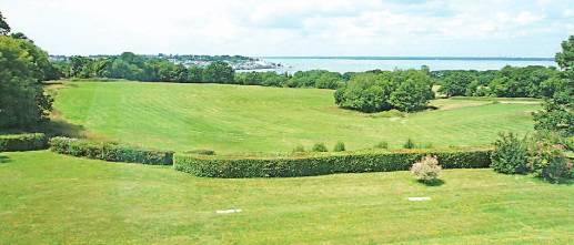 The view of the Solent.